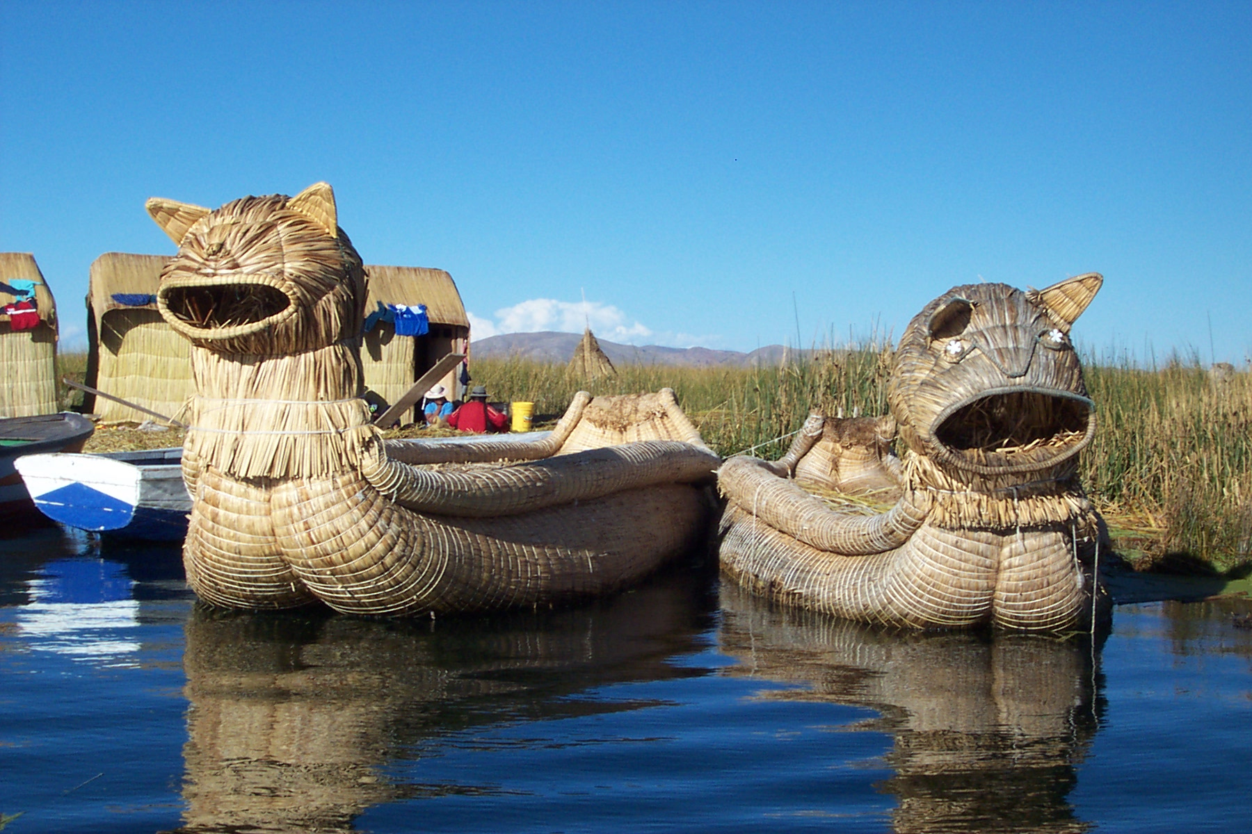 Boats in Uros islands.